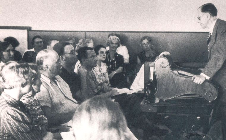 A lecture during Eranos meeting in 1938. Paul Masson-Oursel is the lecturer. C. G. Jung is listening on the left of the picture.